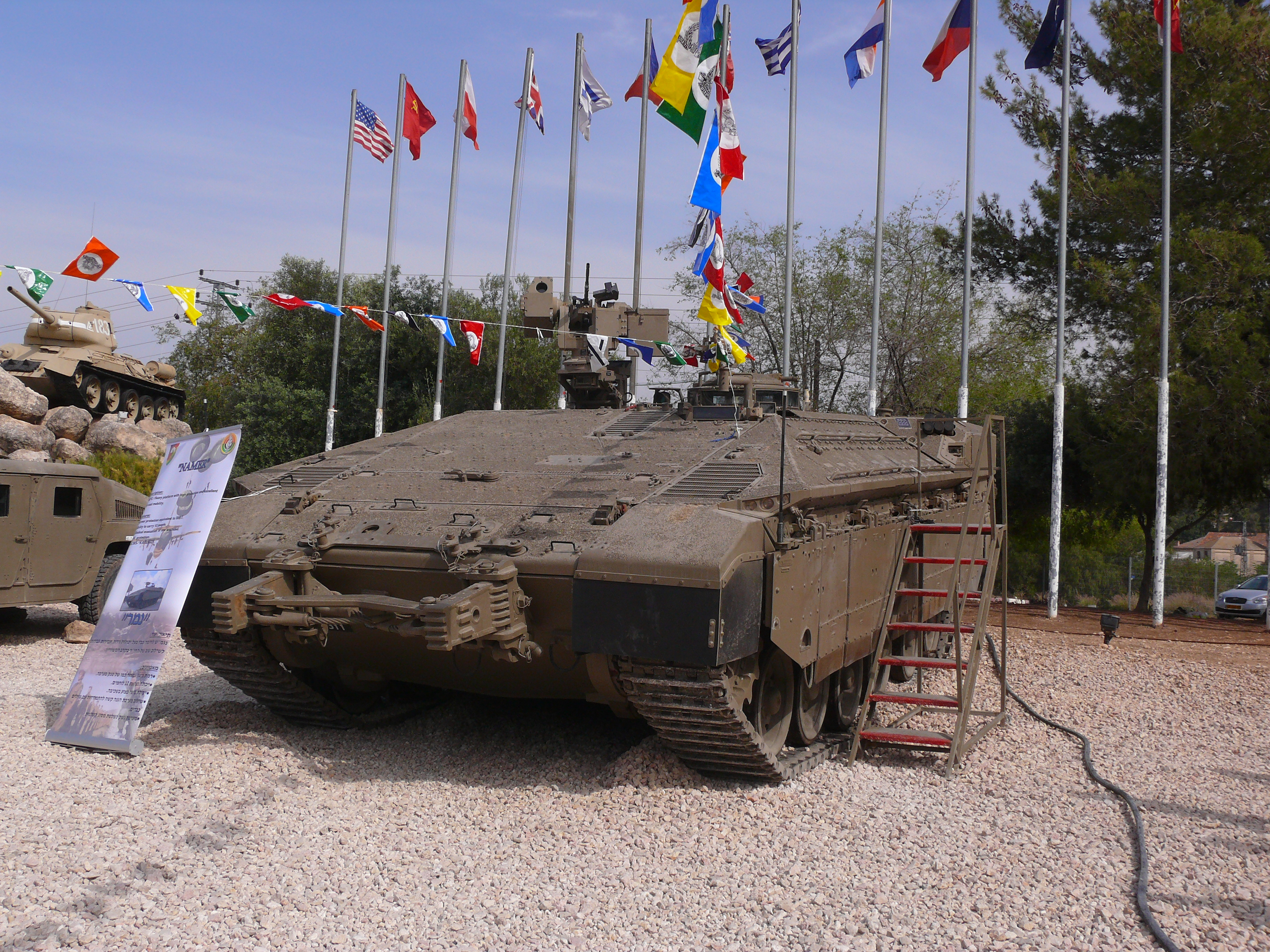 Namer APC